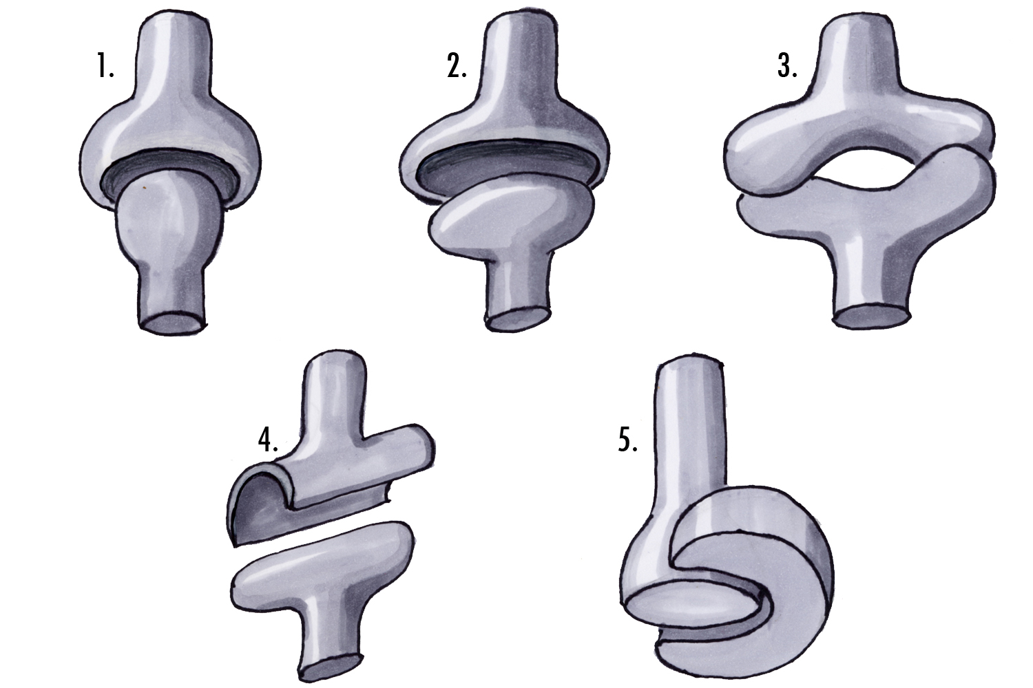 Joints1 Ball-and-Socket-Joint2 Ellipsoid Joint3 Saddle Joint4 Hinge Joint5 Plane Joint